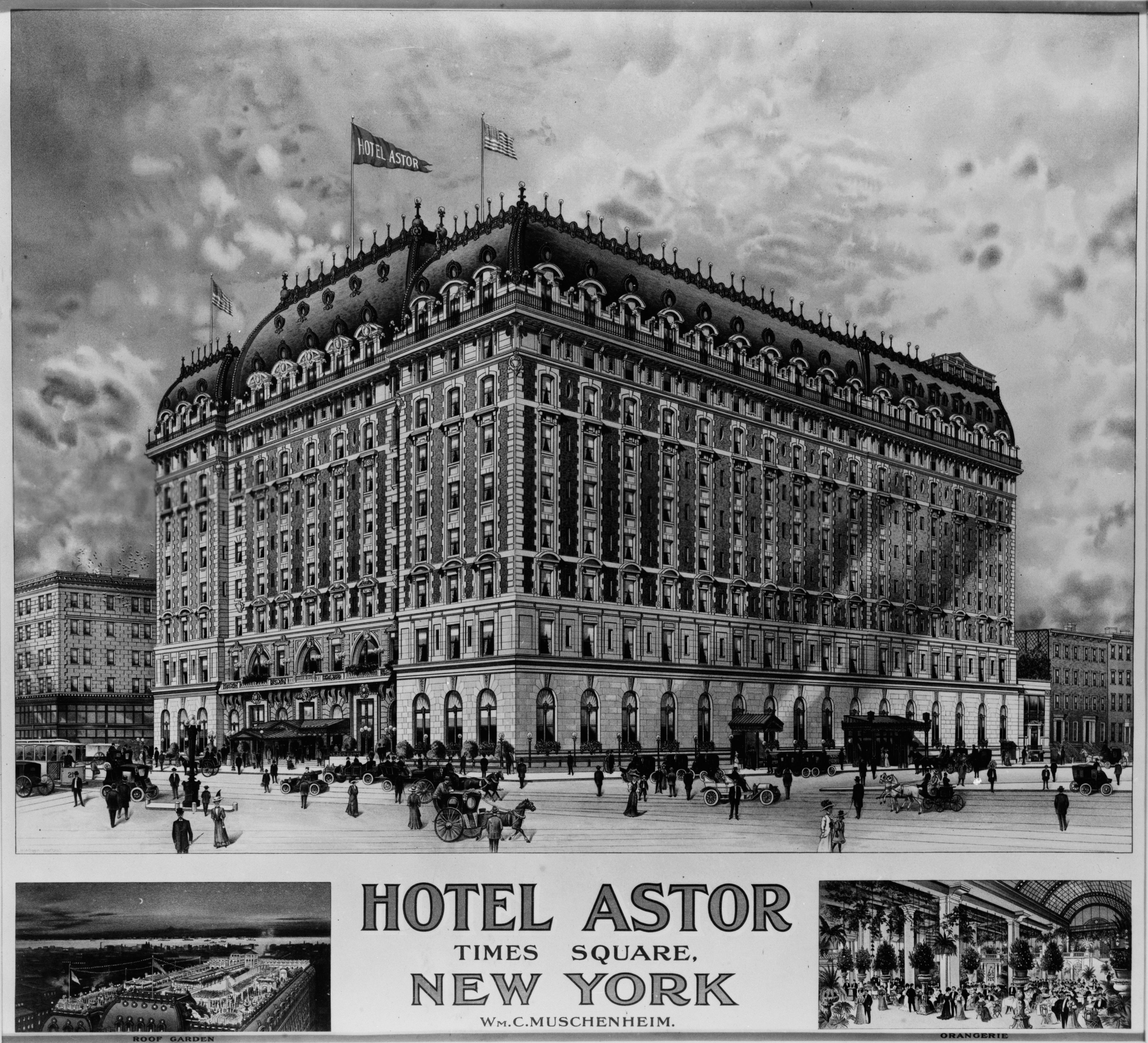 Historic view of the Astor Hotel, Times Square, New York. Poster, c. 1900-1910